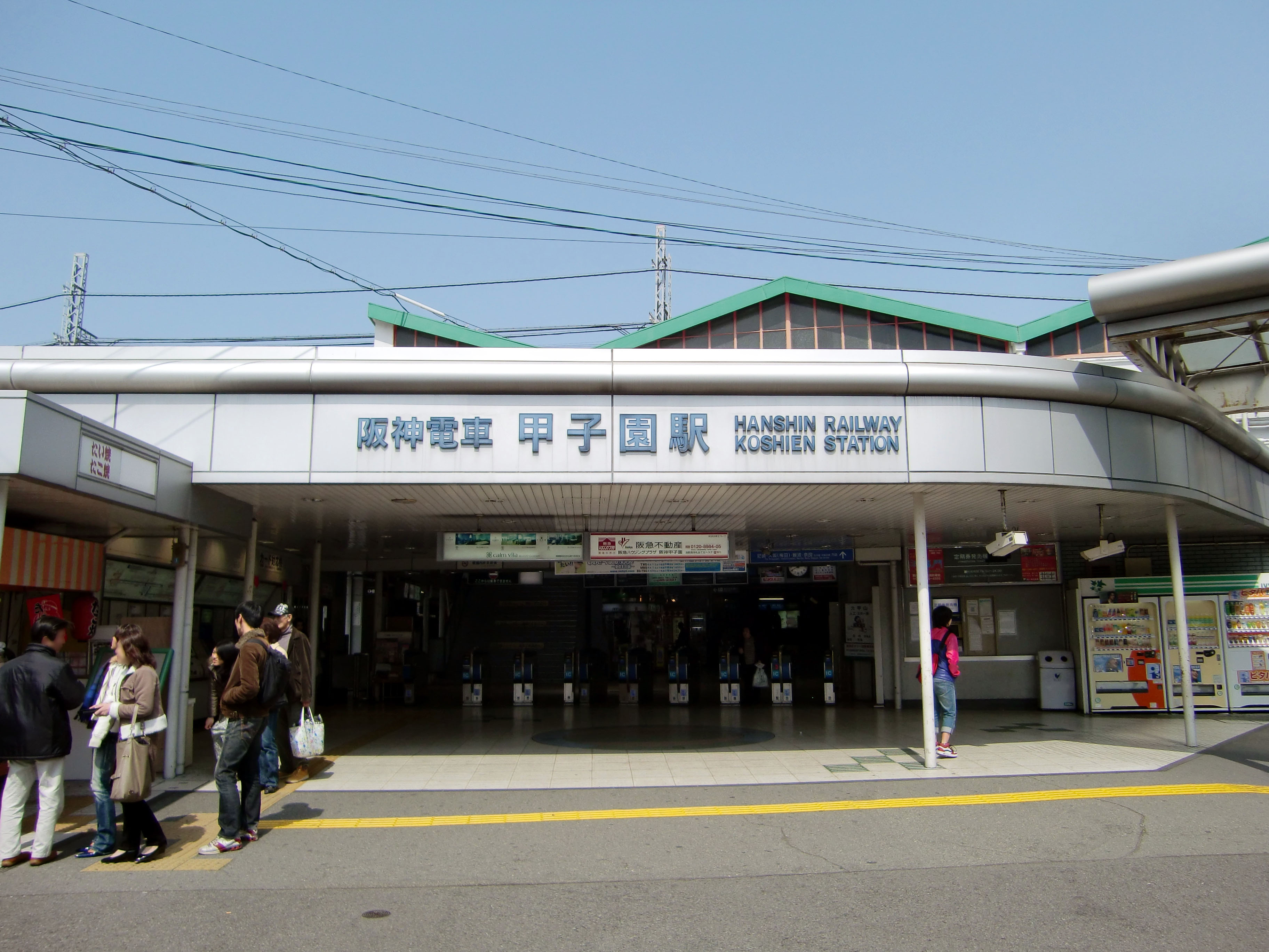 Hanshin Koshien Station(East Gate),1-1 Nanabancho Nishinomiya-city Hyogo Japan.